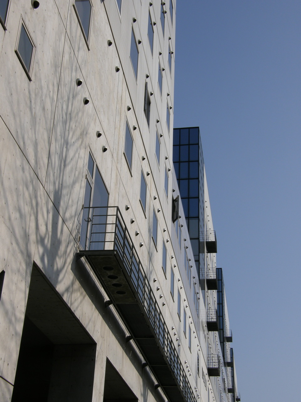 Tokyo University Komaba Research Campus, Tokyo, Japan 2008/03/15